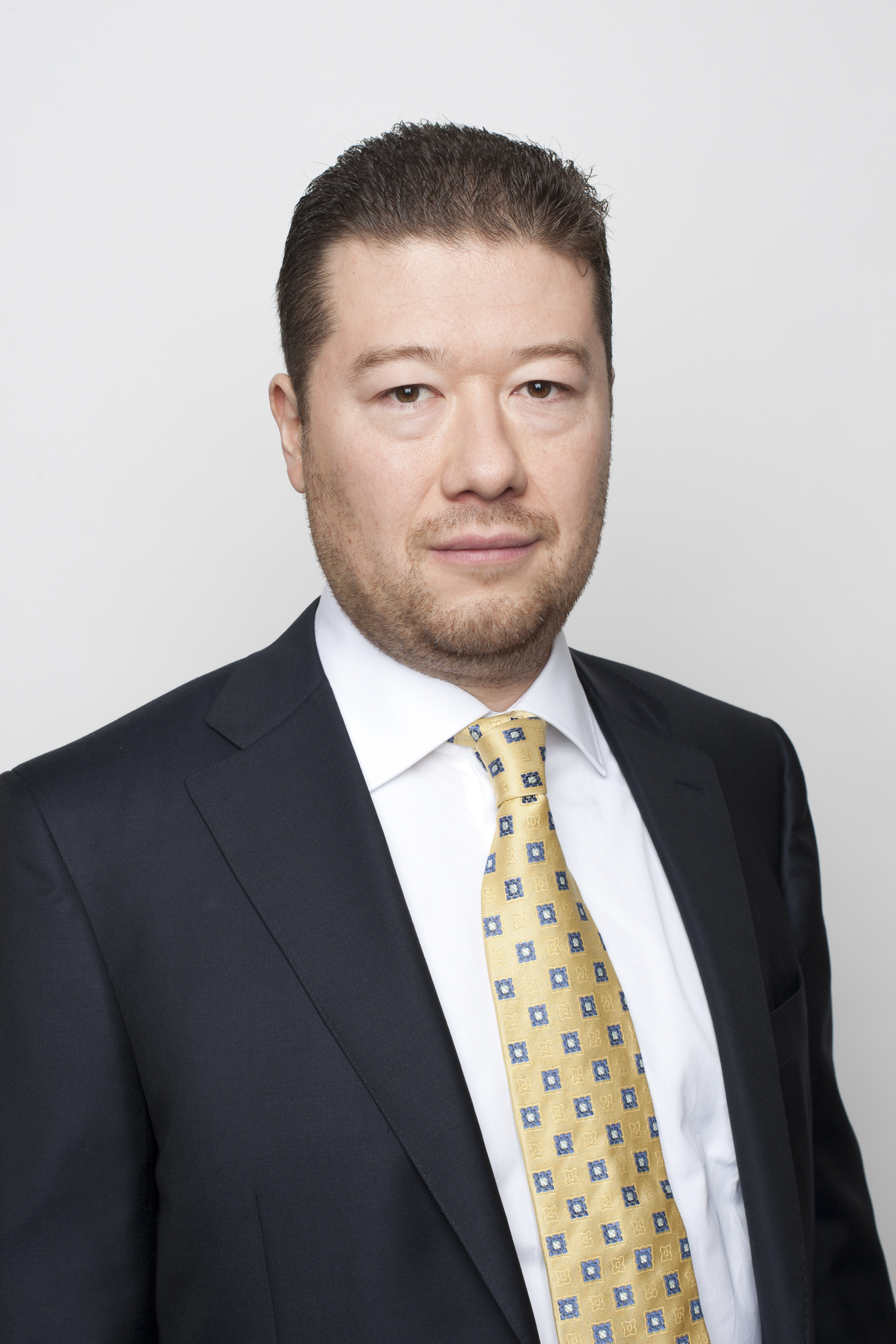 Tomio Okamura, from 2012 member of the Senate of the Parliament of the Czech Republic